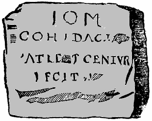 Altar dedicated to Jupiter Optimus Maximus, Cohors I Dacorum, Bewastle/Fanum Cocidi, found before 1794.